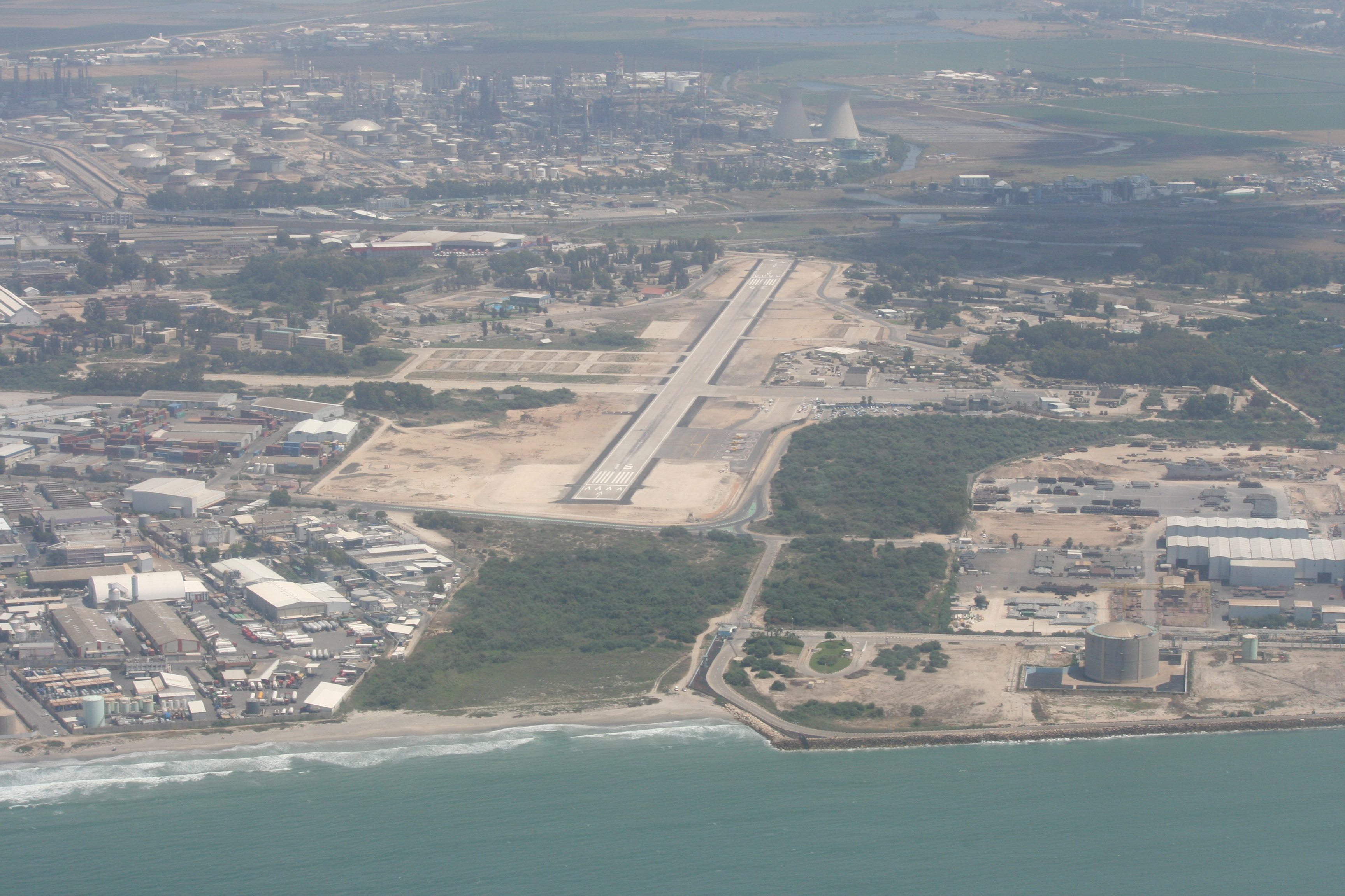 Haifa airport as seen from the West